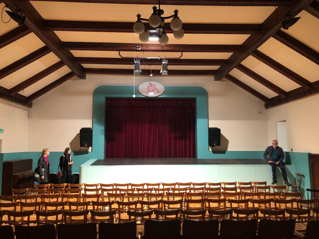 Hlavní sál Kašpárkova divadla v Olomouci